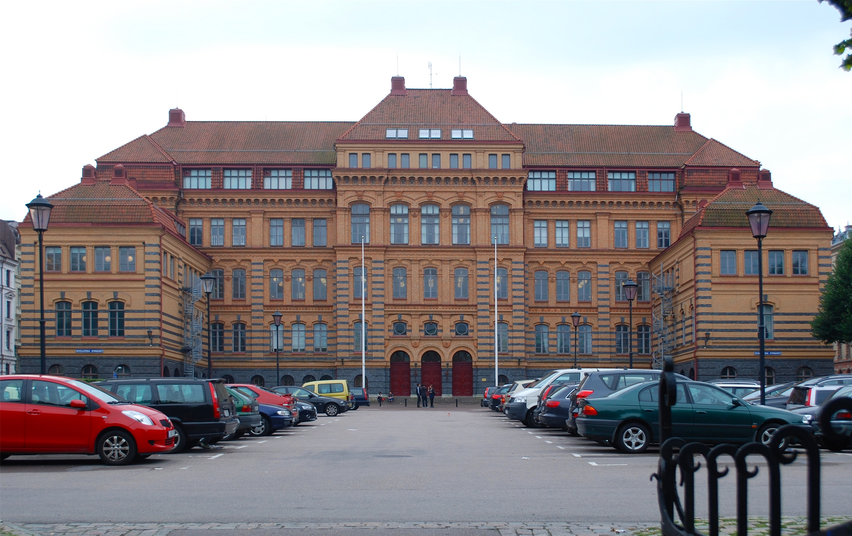 Schillerska gymnasiet